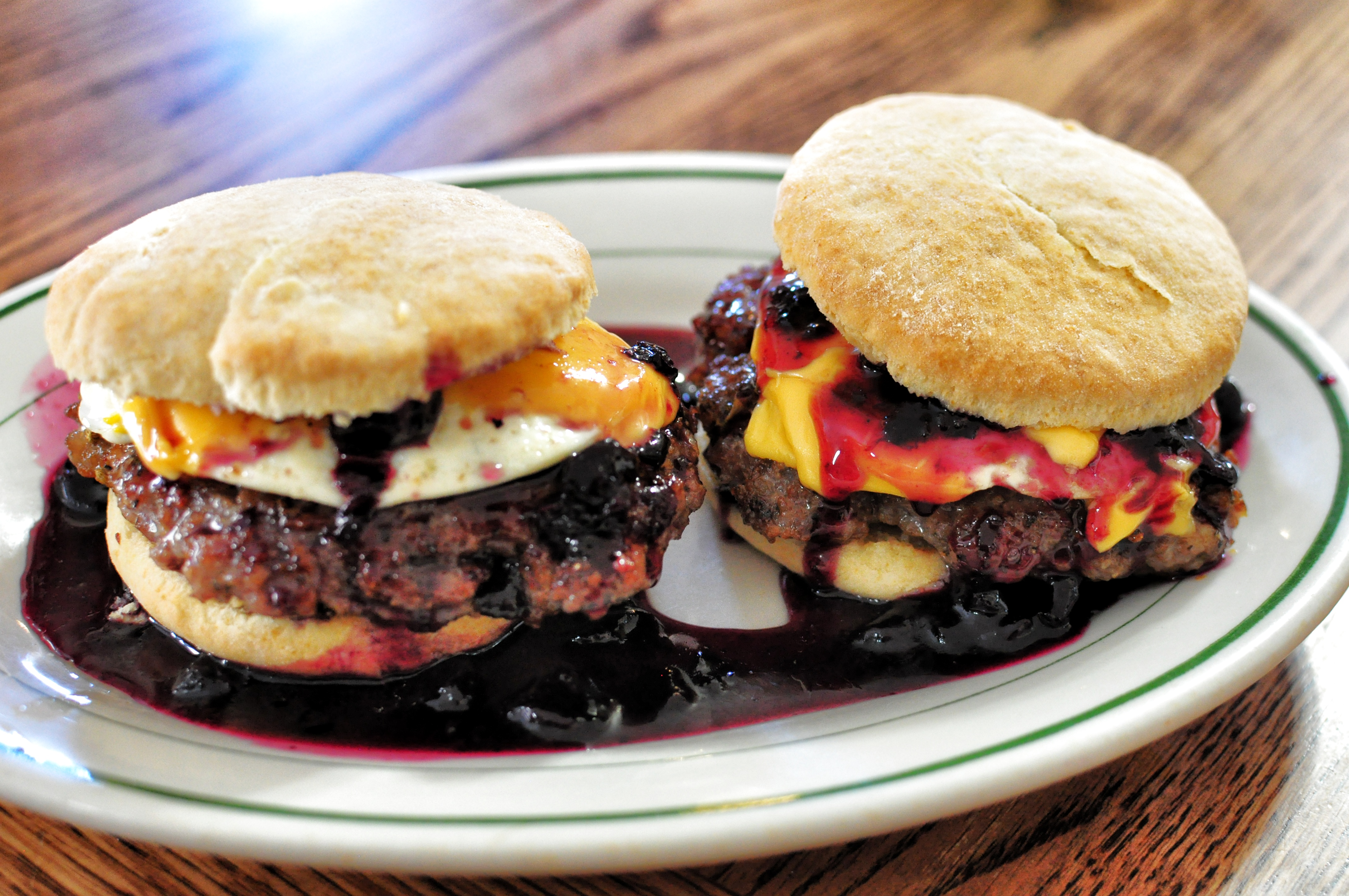 sausage egg with cheese hamburger